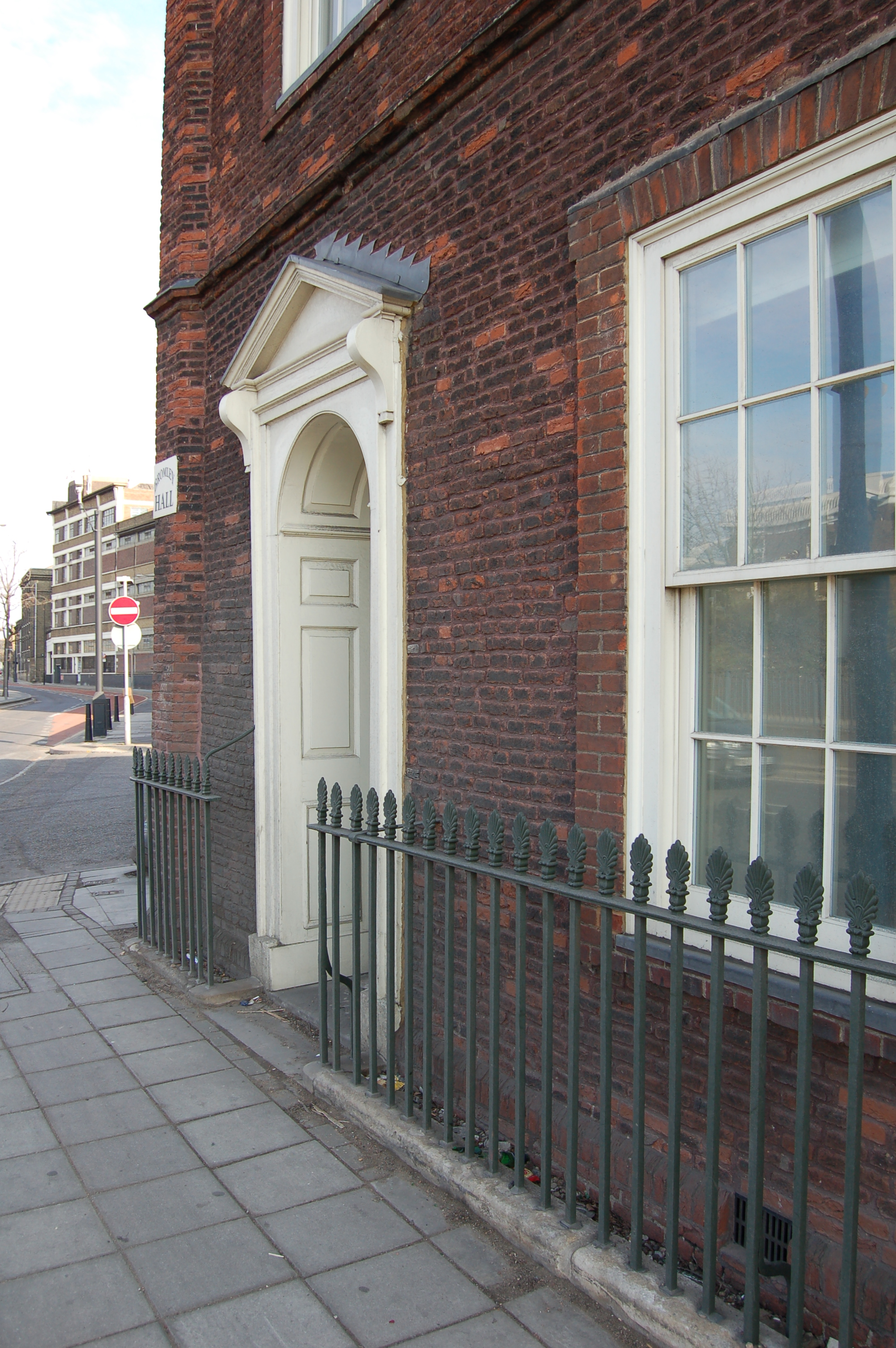 Bromley Hall frontage Use freely, please attribute K. B. Thompson